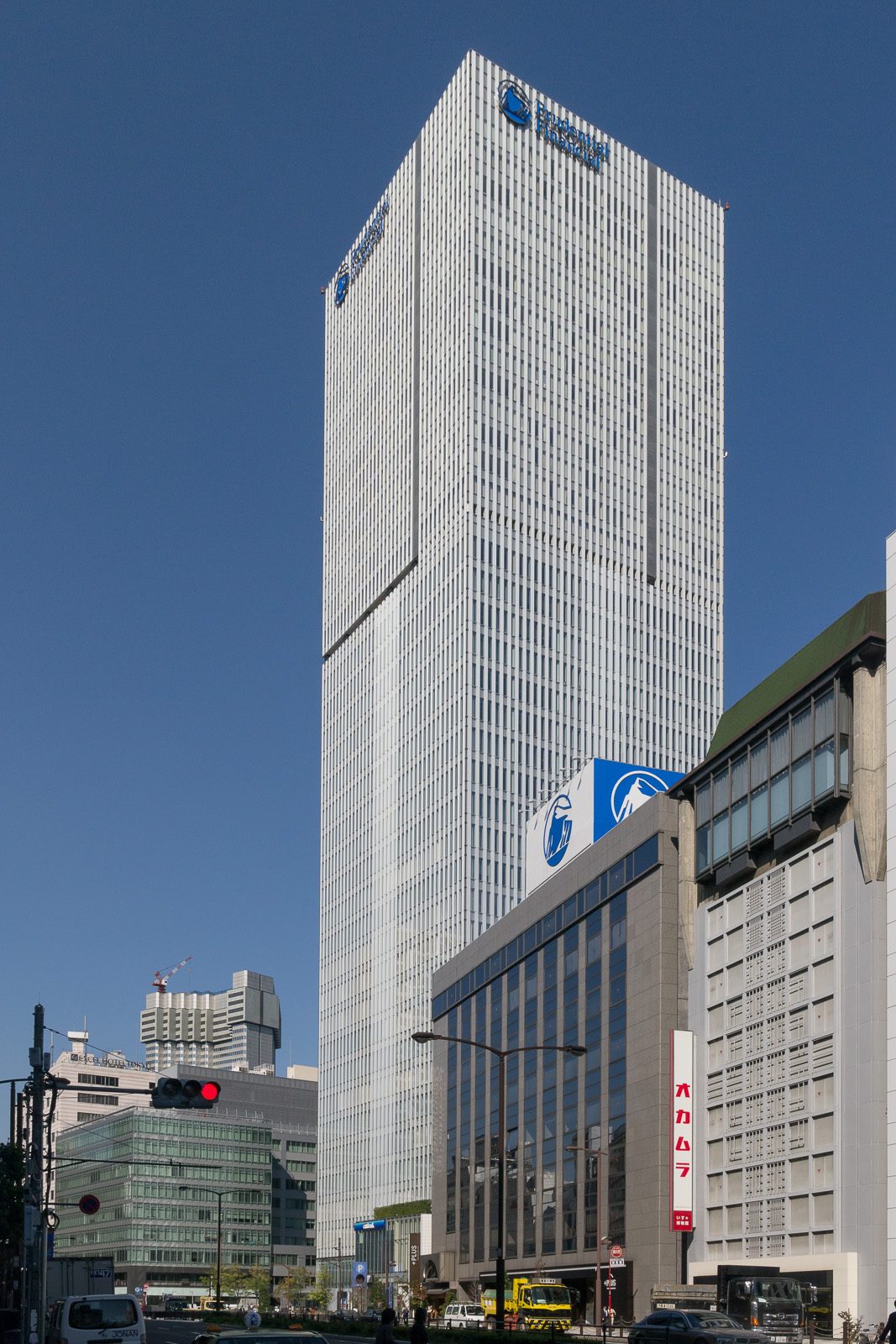 Prudential Tower, Nagata-cho Chiyoda-ku, Tokyo